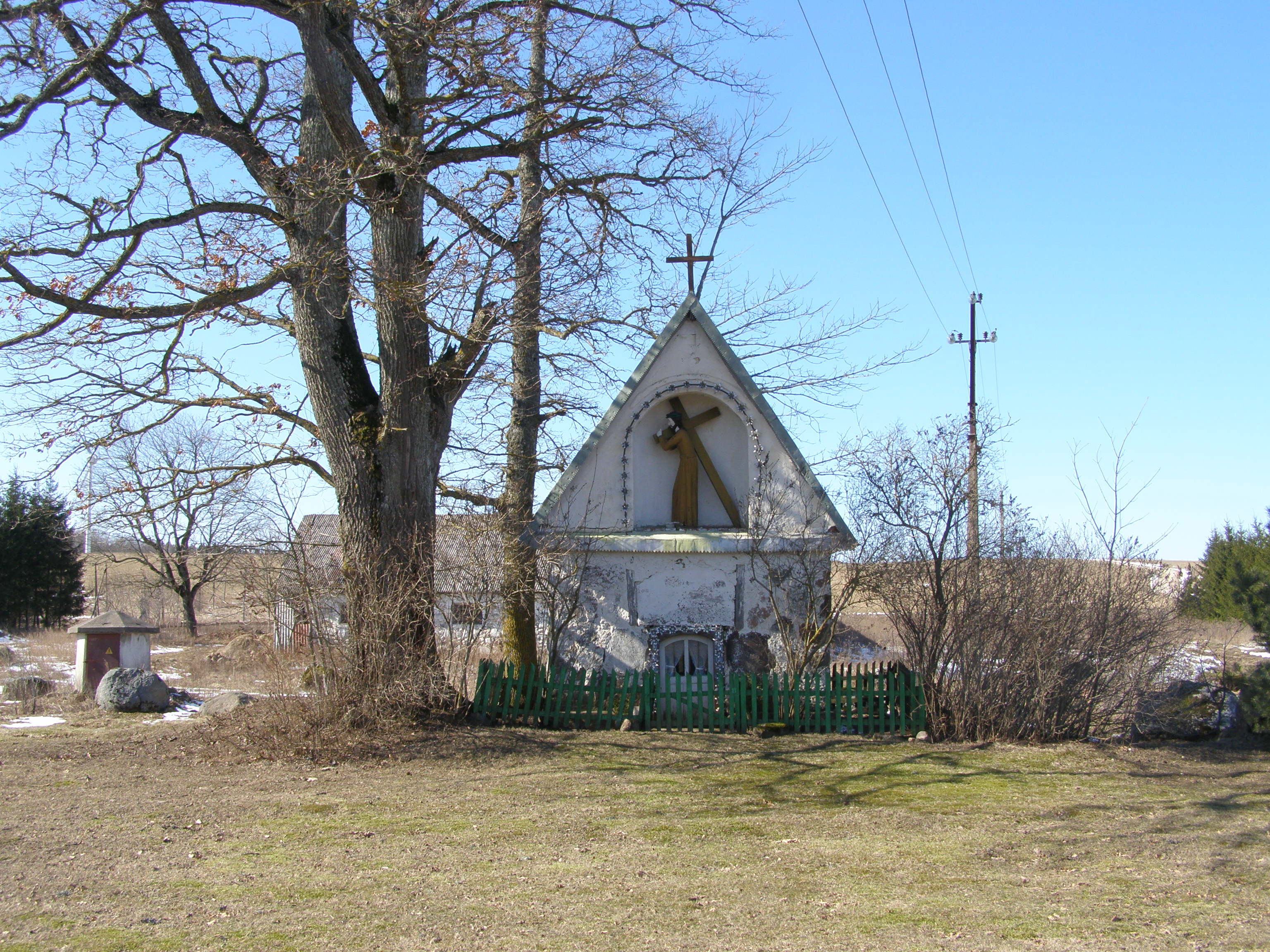 Tinteliai, Kretinga district, LithuaniaLietuvių: Tintelių palivarko koplyčia, Kūlupėnų seniūnija, Kretingos rajonas, Lietuva